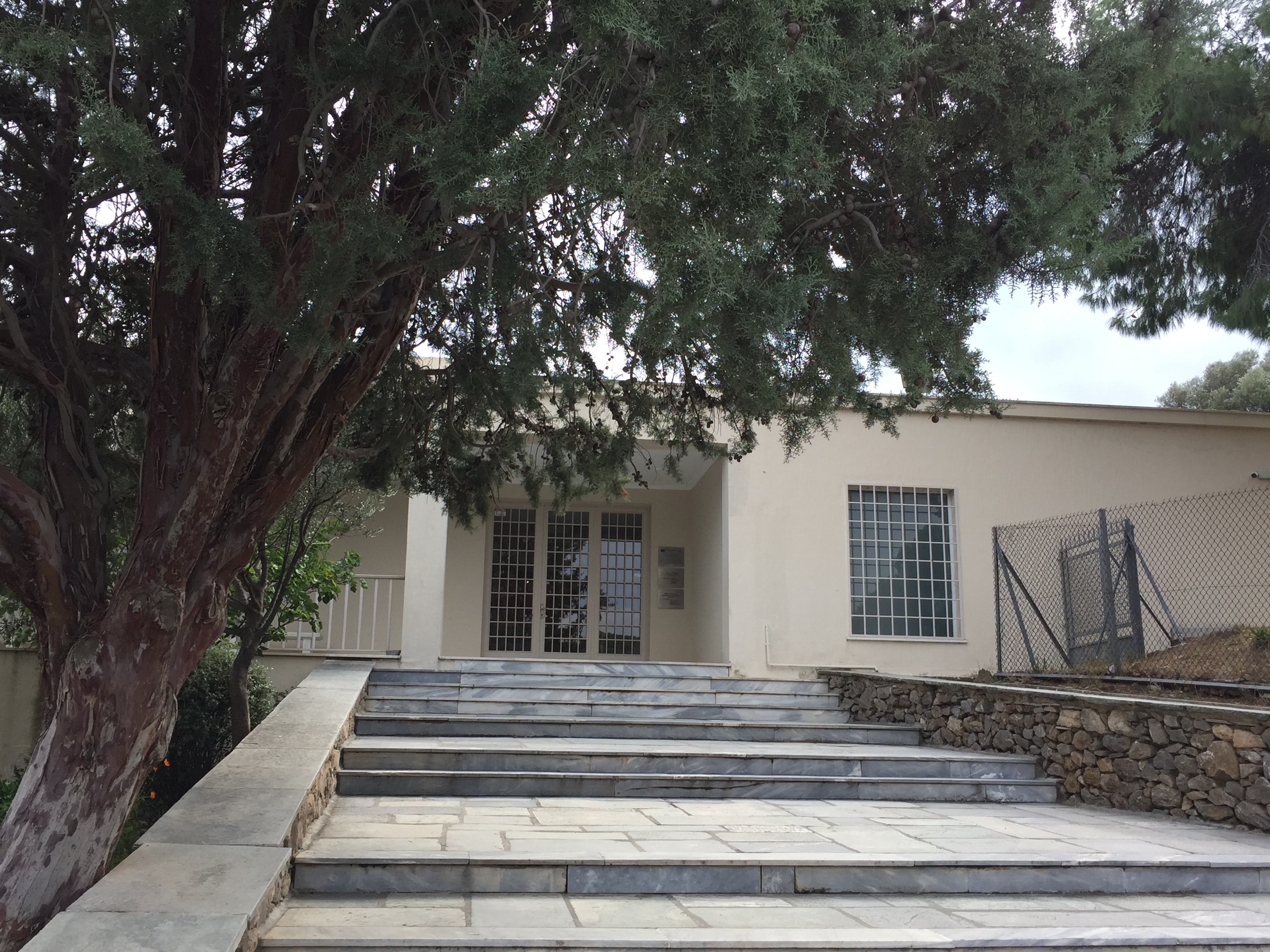 The photo has been taken in November 2019